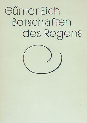 Book cover of Günter Eich: Botschaften des Regens, first published in 1955.